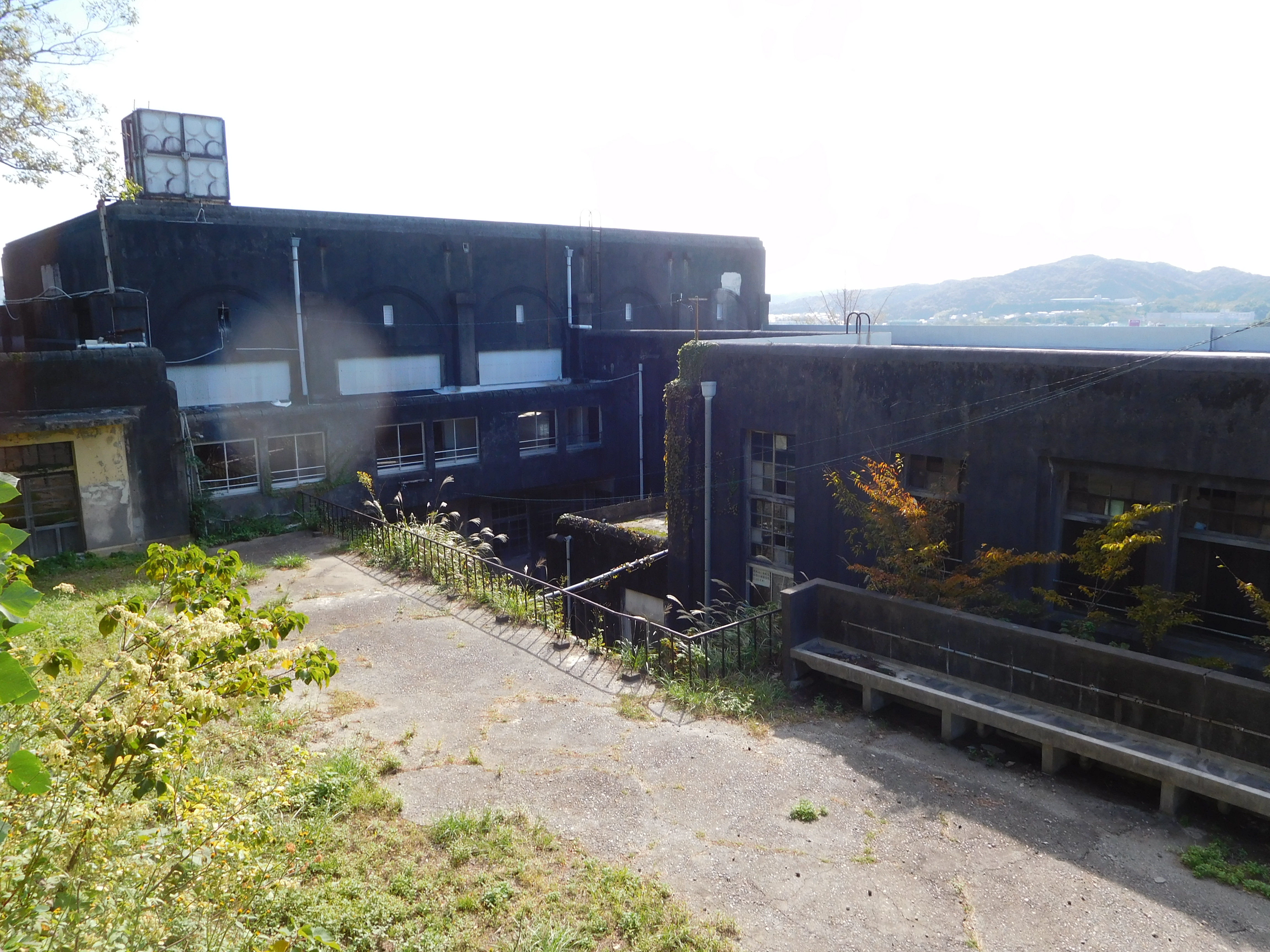 This is the Former Toba Elementary School Building in Toba, Mie, Japan.